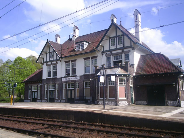 Voerendaal railway station building.